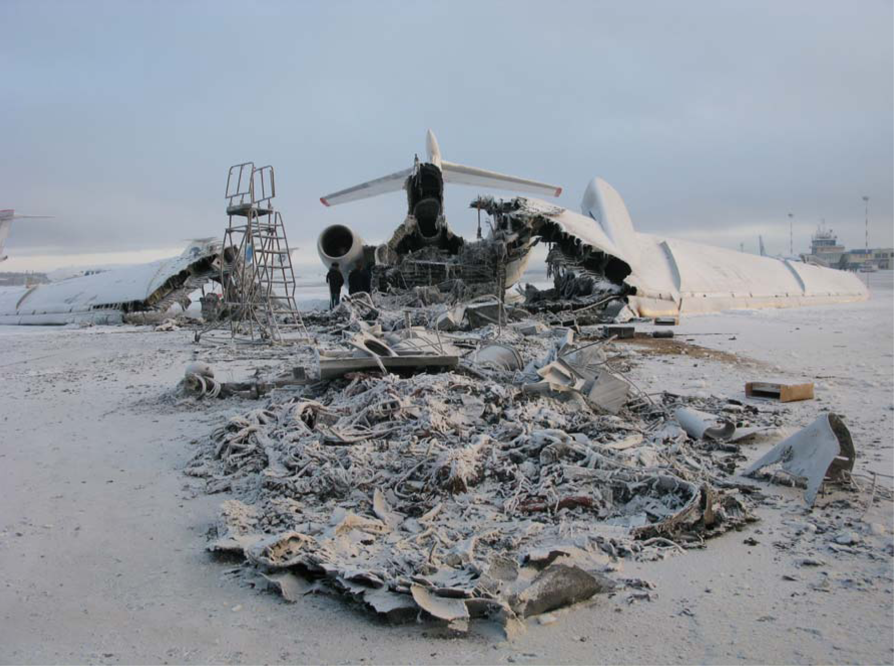 Picture 1. Overall view of the aircraft in place